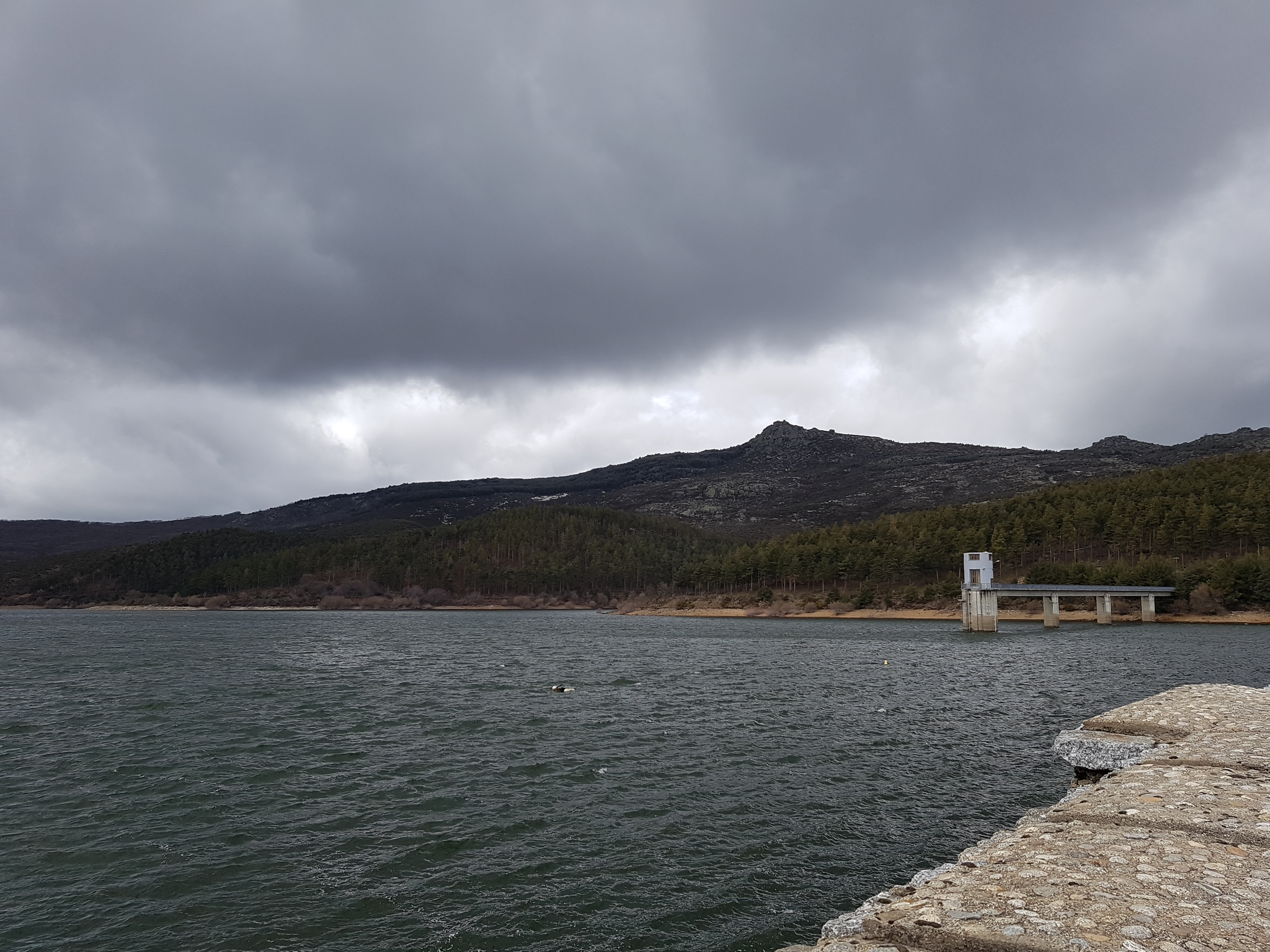 Reservoir of Navamuño